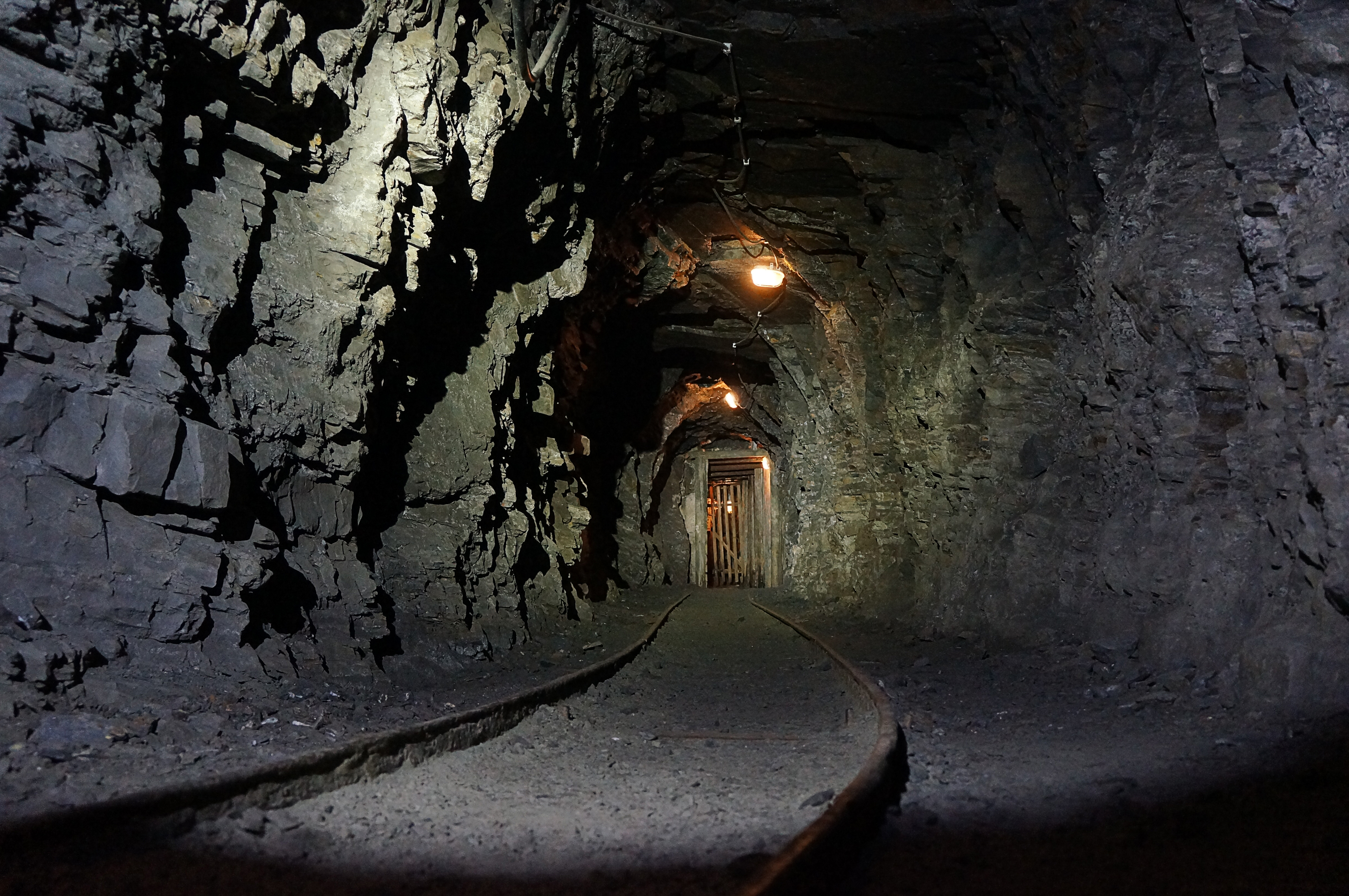 Mine Lautenthals Glück in the Harz region. Main adit to "Neue Förderschacht".